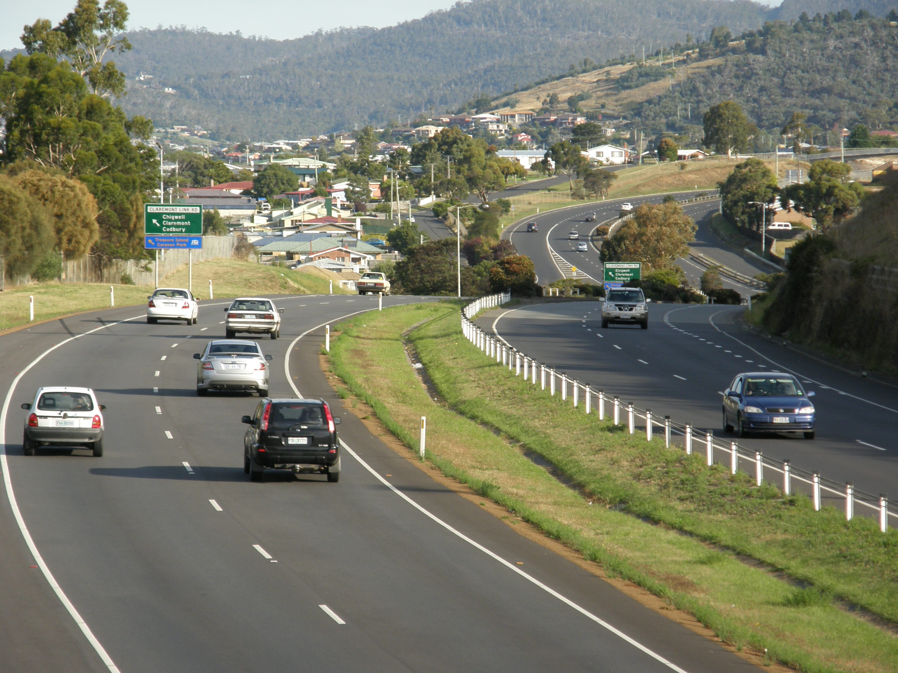 (facing south) The Brooker Highway at Claremont.